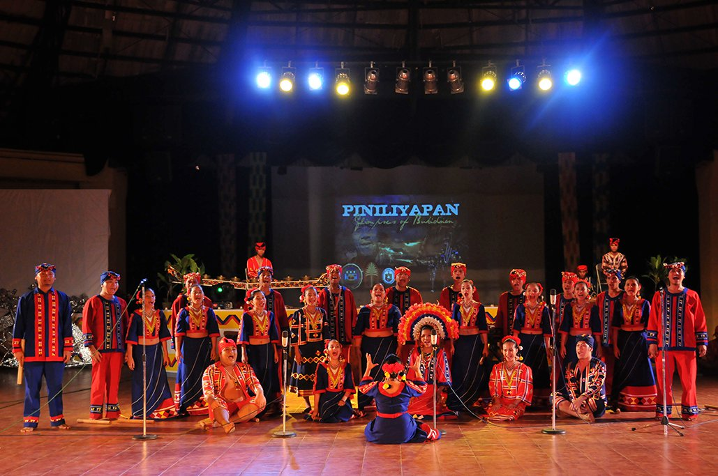 Piniliyapan in Bukidnon for Kaamulan Festival